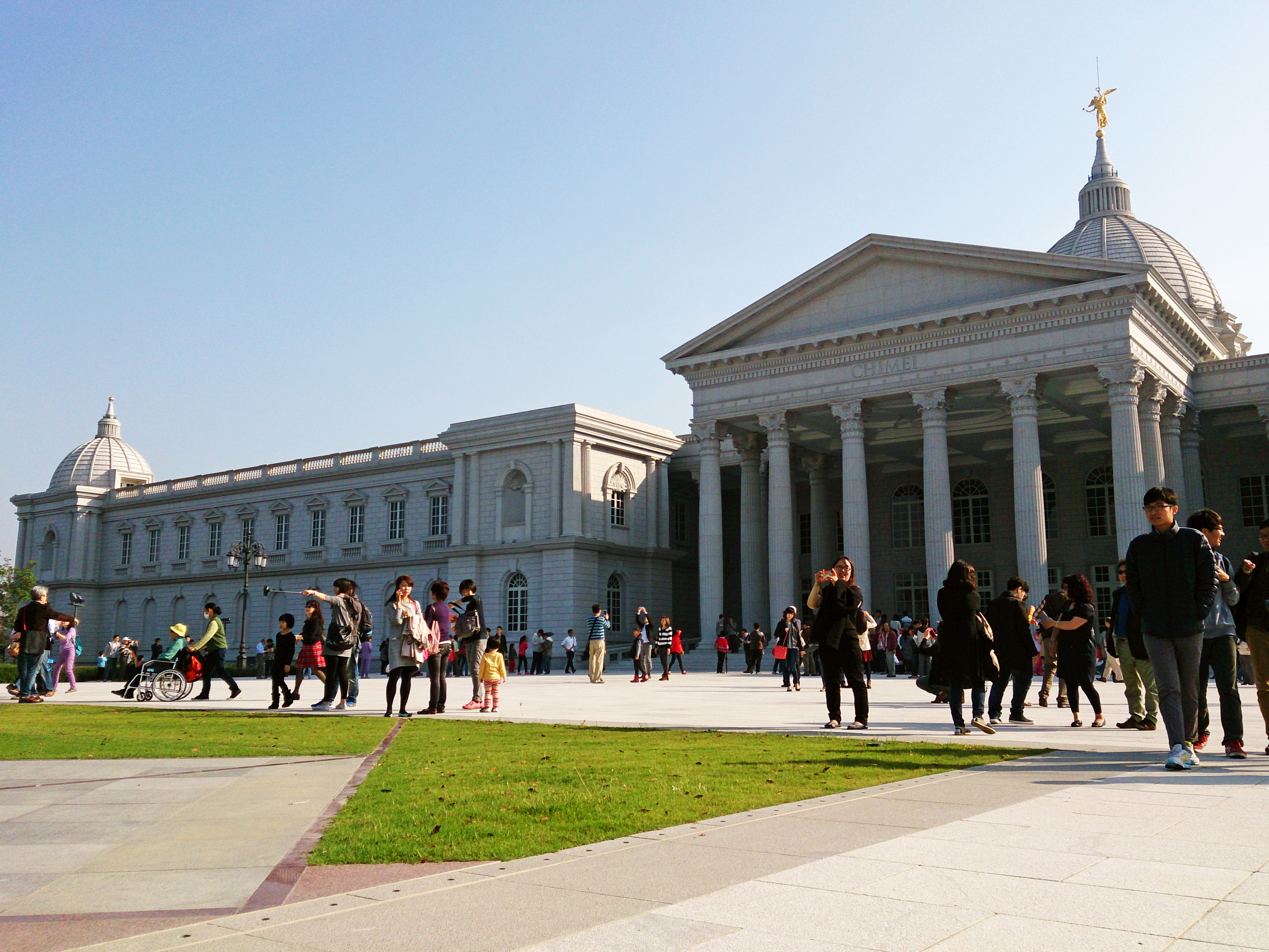 Trial operation of Chimei Museum in 2014